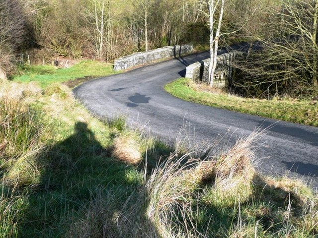 Bridge over Nant Gwenddwr A minor road out of Gwenddwr crosses the stream here.